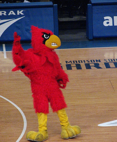 The Louisville Cardinal at a basketball game.